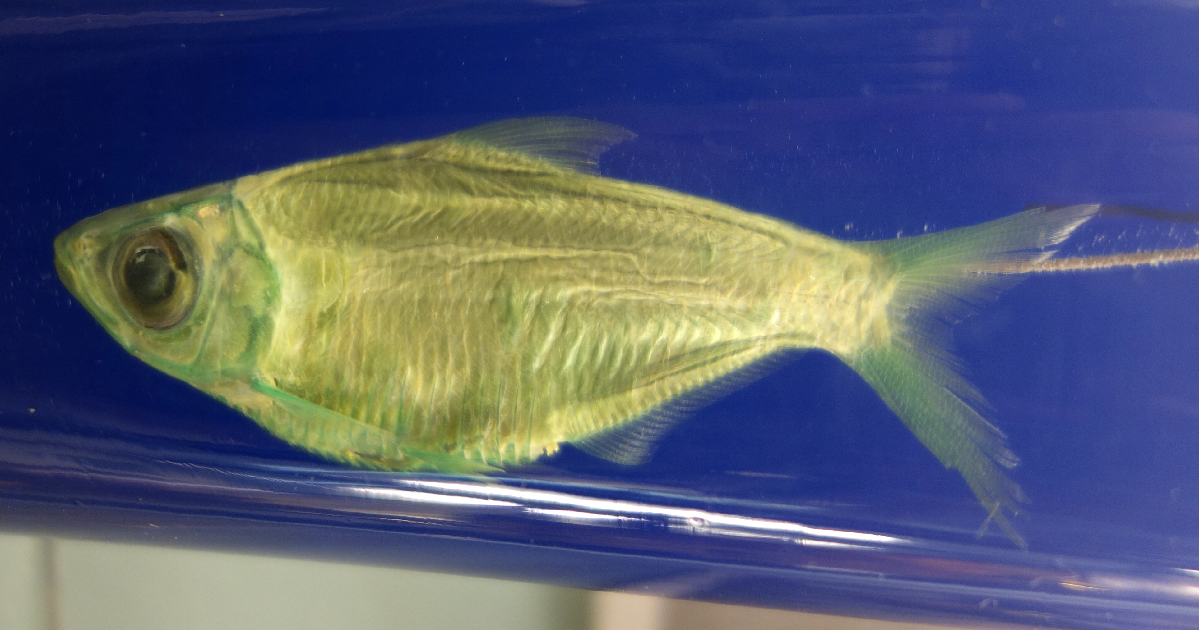 Exhibit in the Royal Museum for Central Africa, Tervuren, Belgium.